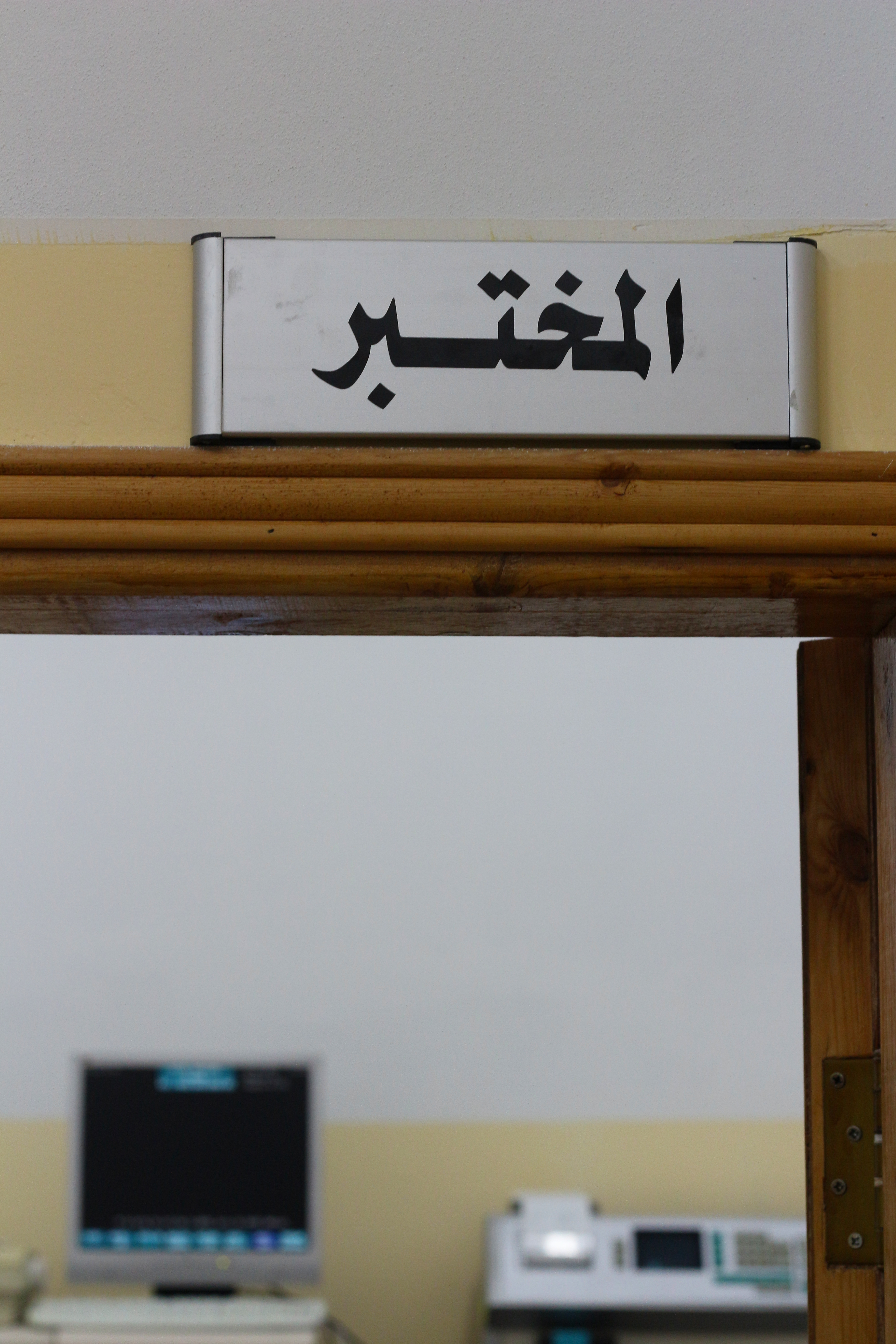 Medical laboratory in Fawwar refugee camp, Hebron, Palestine